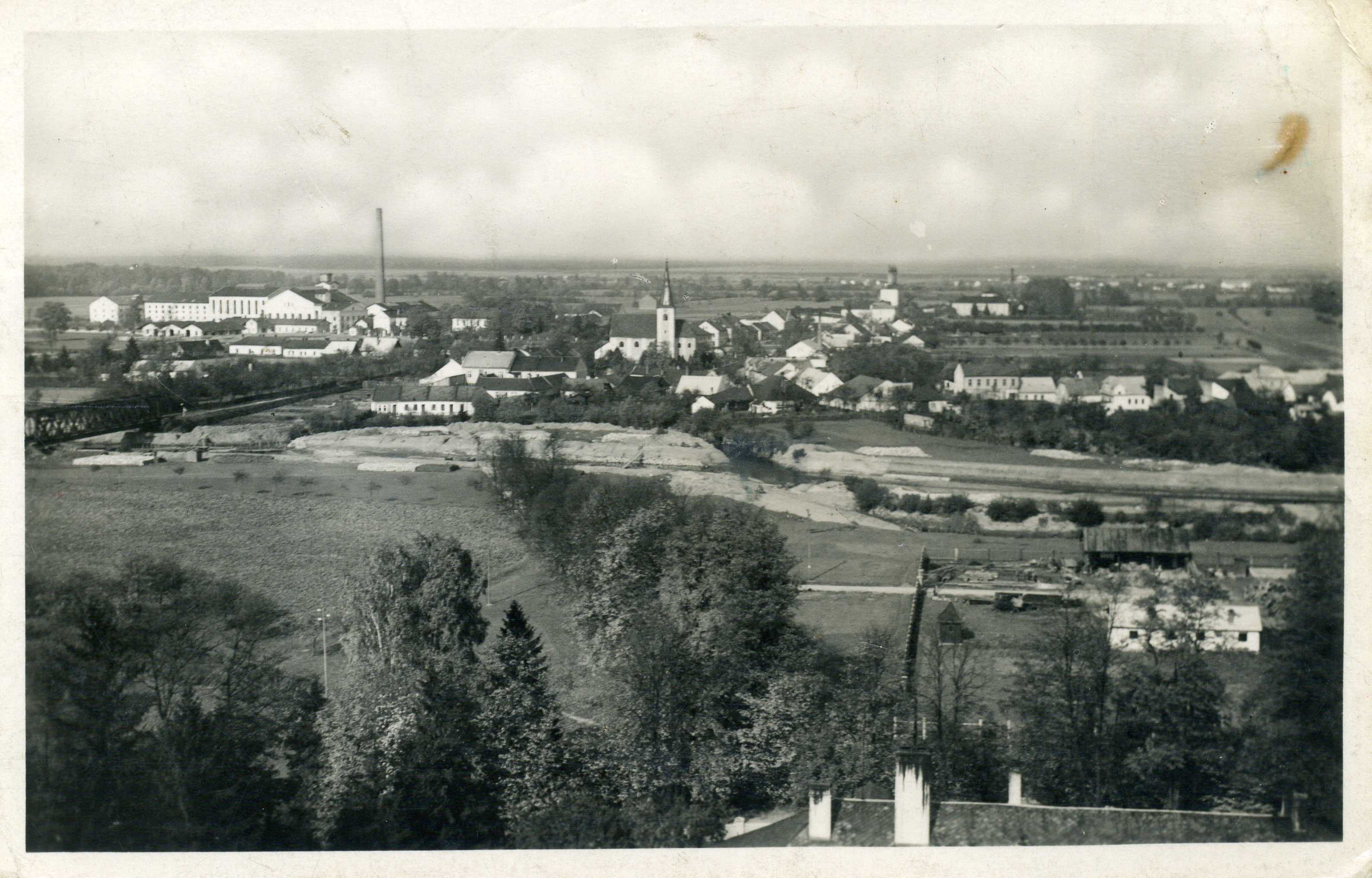 Historical picture of the northern-west part of Litovel with sugar refinery of the left and the Church of Saints Philip and James in the center.